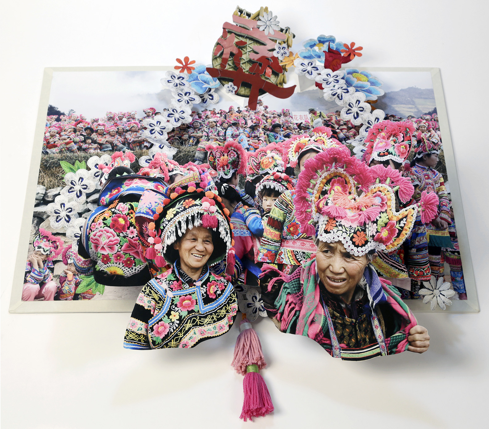 popupbook